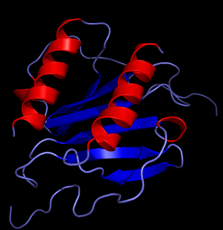 This is a crystal structure of human Interleukin-8. The data was obtained from the Protein Data Bank (PDB: 1IL8) and rendered in Pymol. Please see: Clore, G.M., Appella, E., Yamada, M., Matsushima, K., Gronenborn, A.M. Three-dimensional structure of interleukin 8 in solution. Biochemistry v29 pp.1689-1696 , 1990